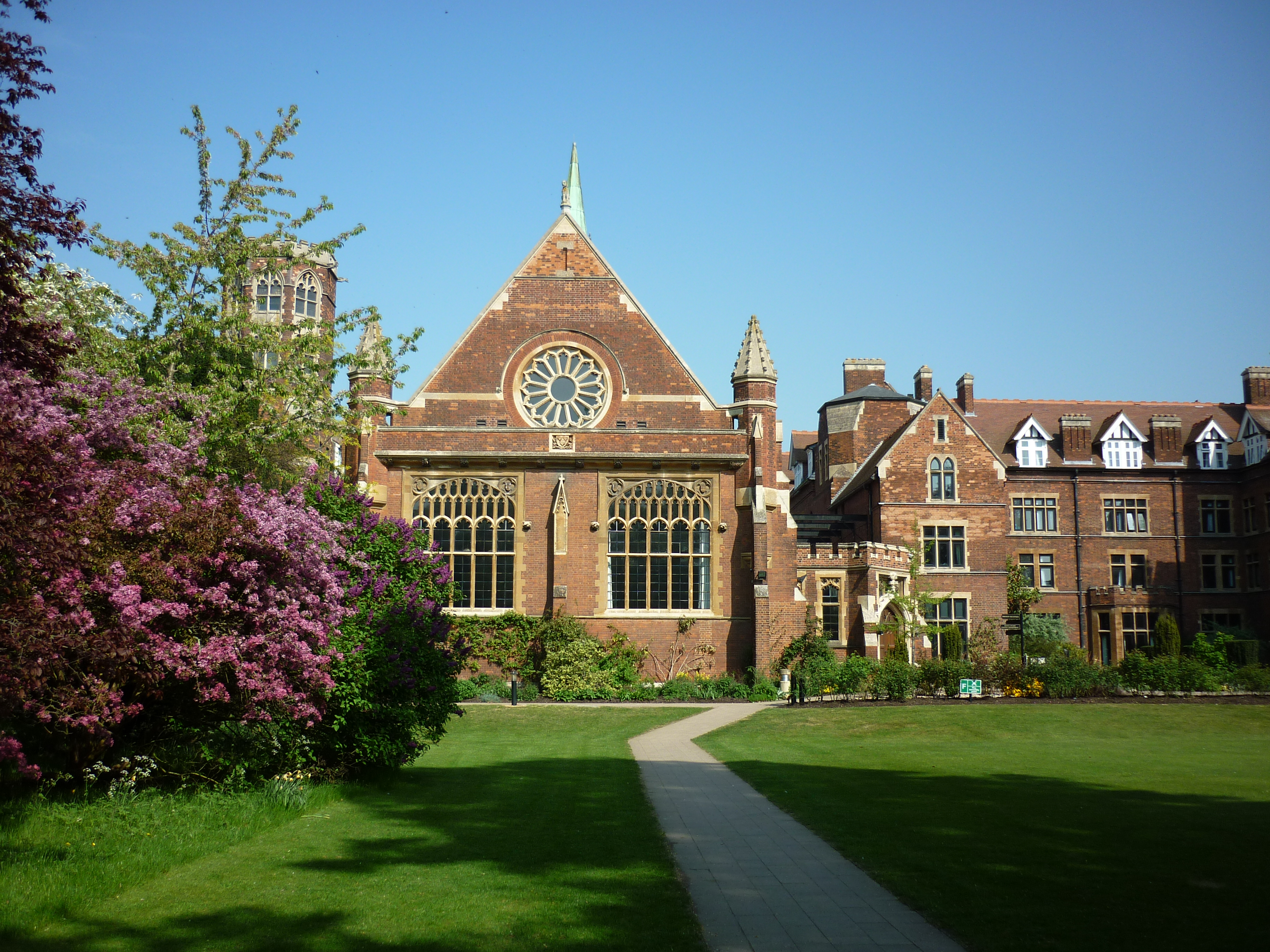 The Cavendish Building of Homerton College, Cambridge - viewed from the North, with the centrepiece being the College's Victorian Gothic Hall.